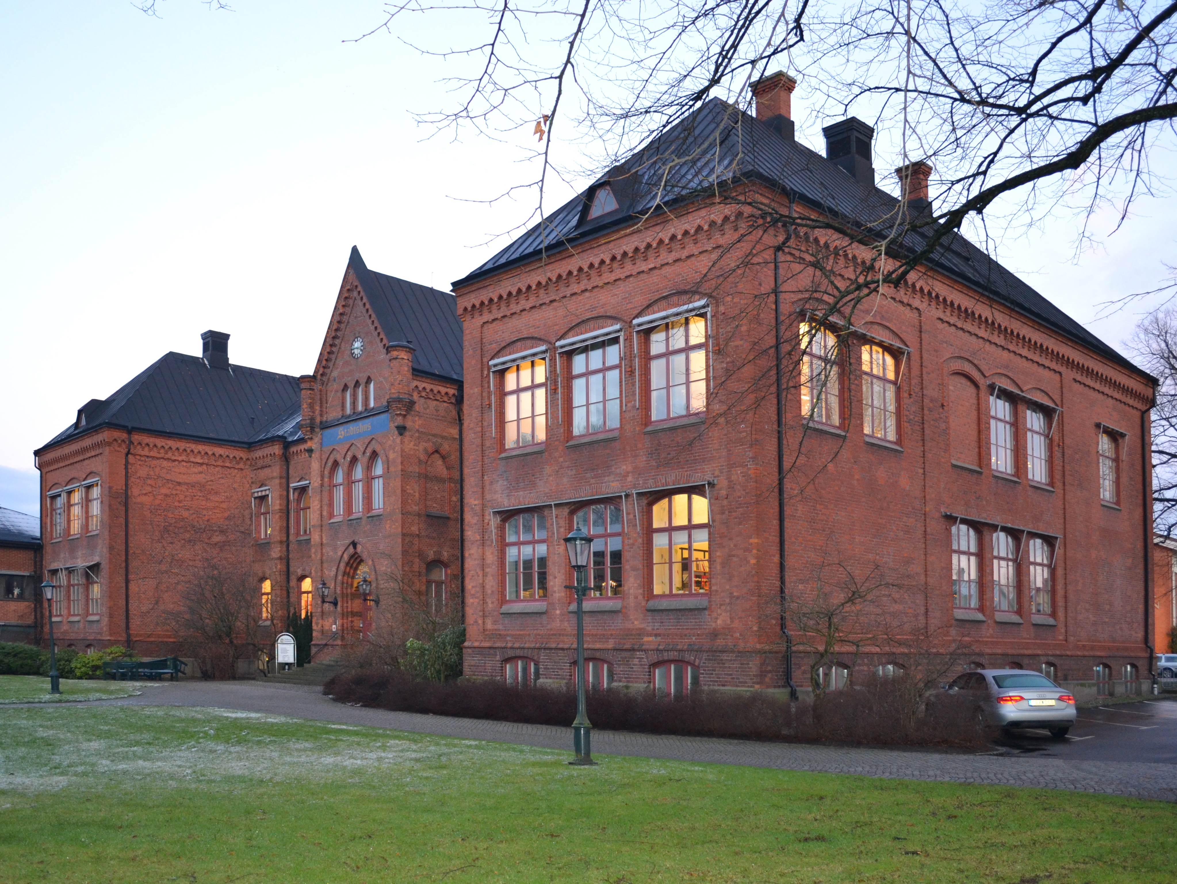 City Hall, Varberg, Sweden.